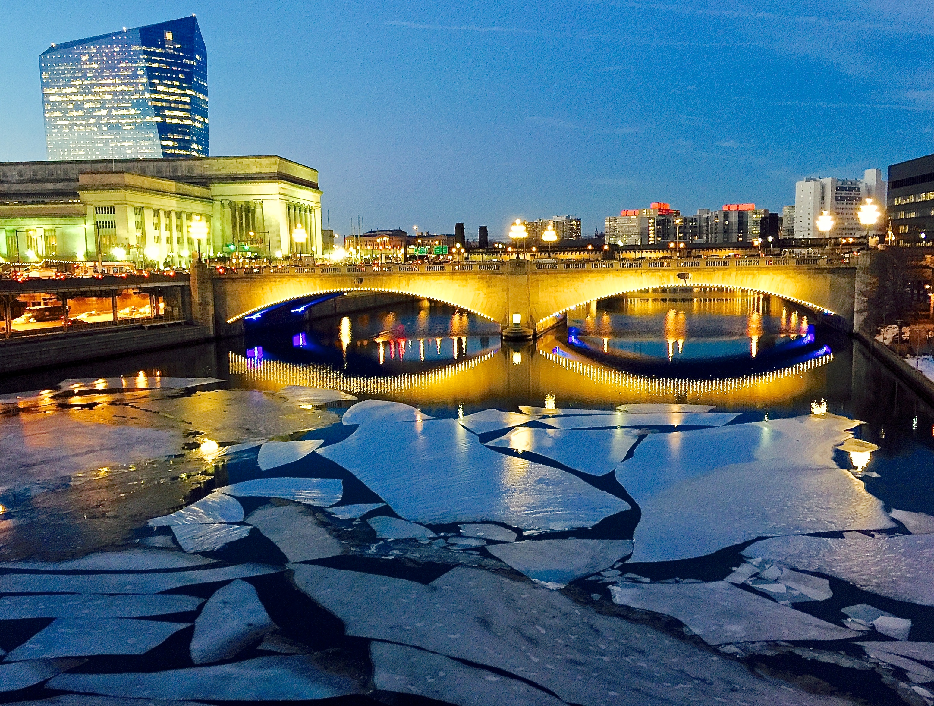 Winter Scene - Schuylkill River